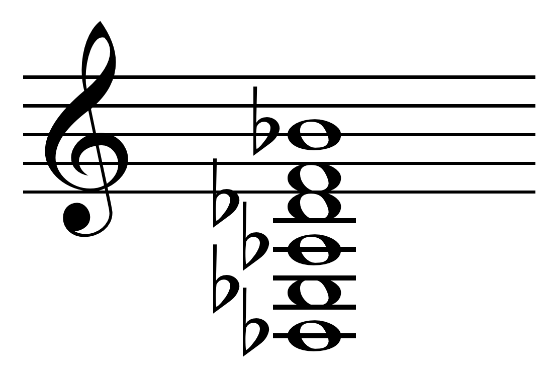 B-flat tuning.